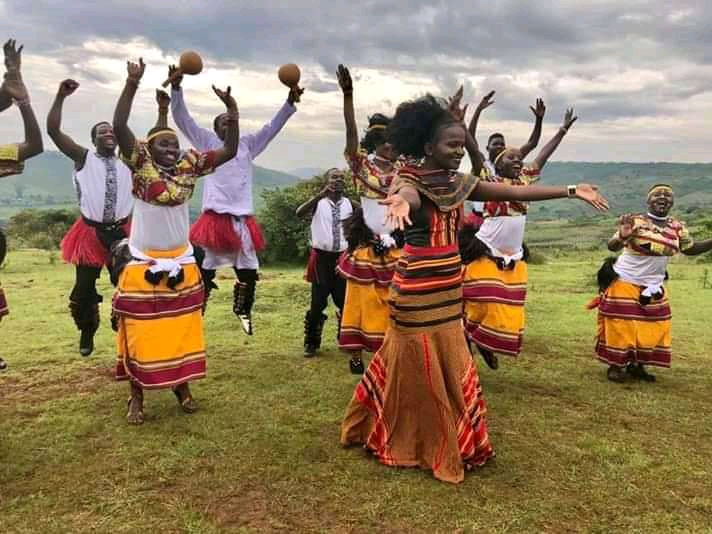 This is an image with the theme "Africa on the Move or Transport" from: Uganda